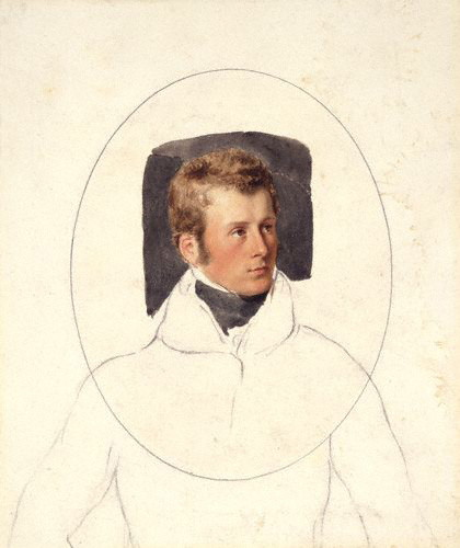 Charles Gordon-Lennox, 5th Duke of Richmond and Lennox